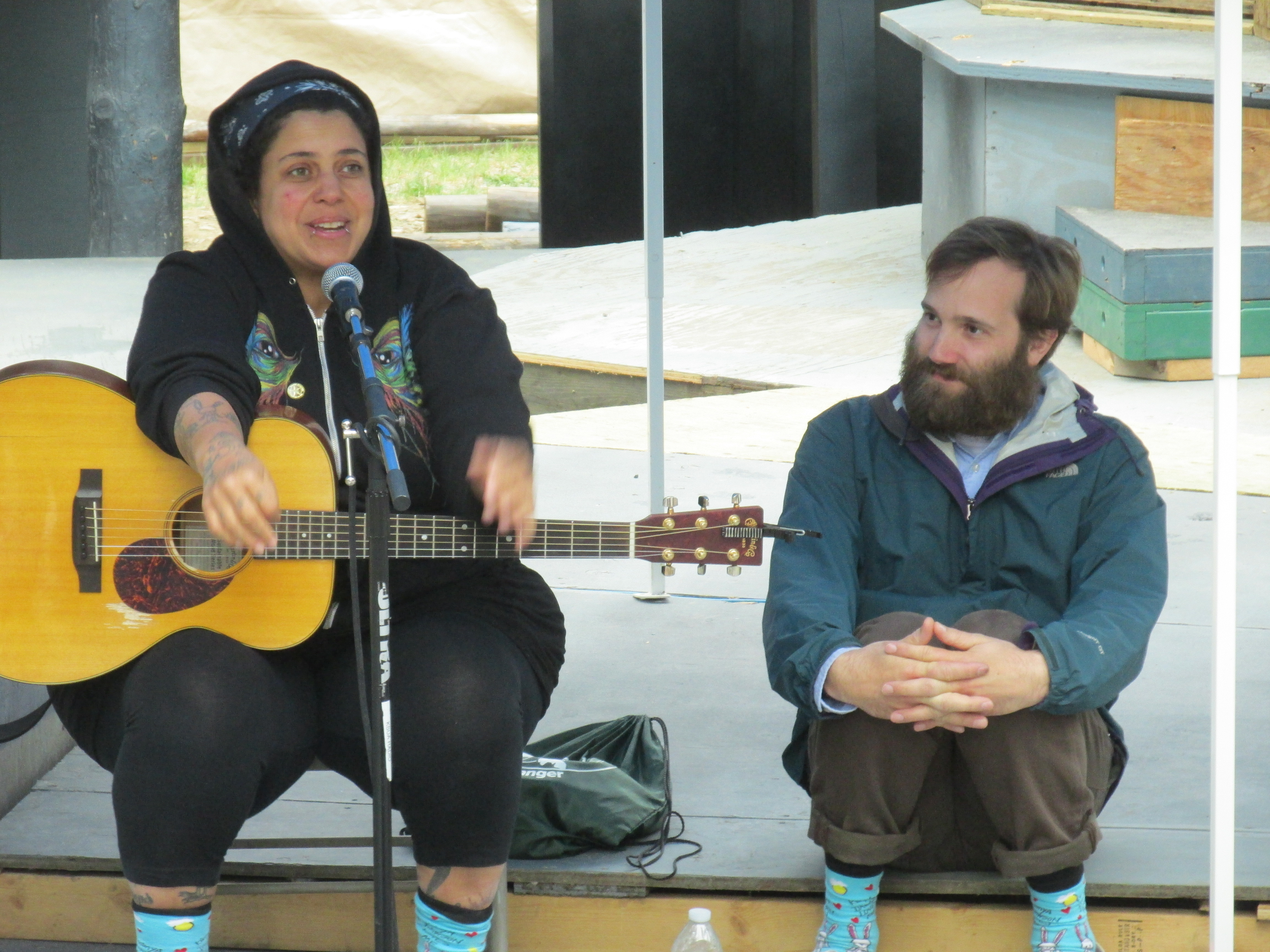 Kimya Dawson performing at the University of Alaska Fairbanks. She invited Paul Baribeau, her opening act, onstage. Baribeau mostly listened and laughed while Dawson performed a monologue, then sang along to a song or two. Note the matching "Kimya Dawson Loves You" socks the pair wore.